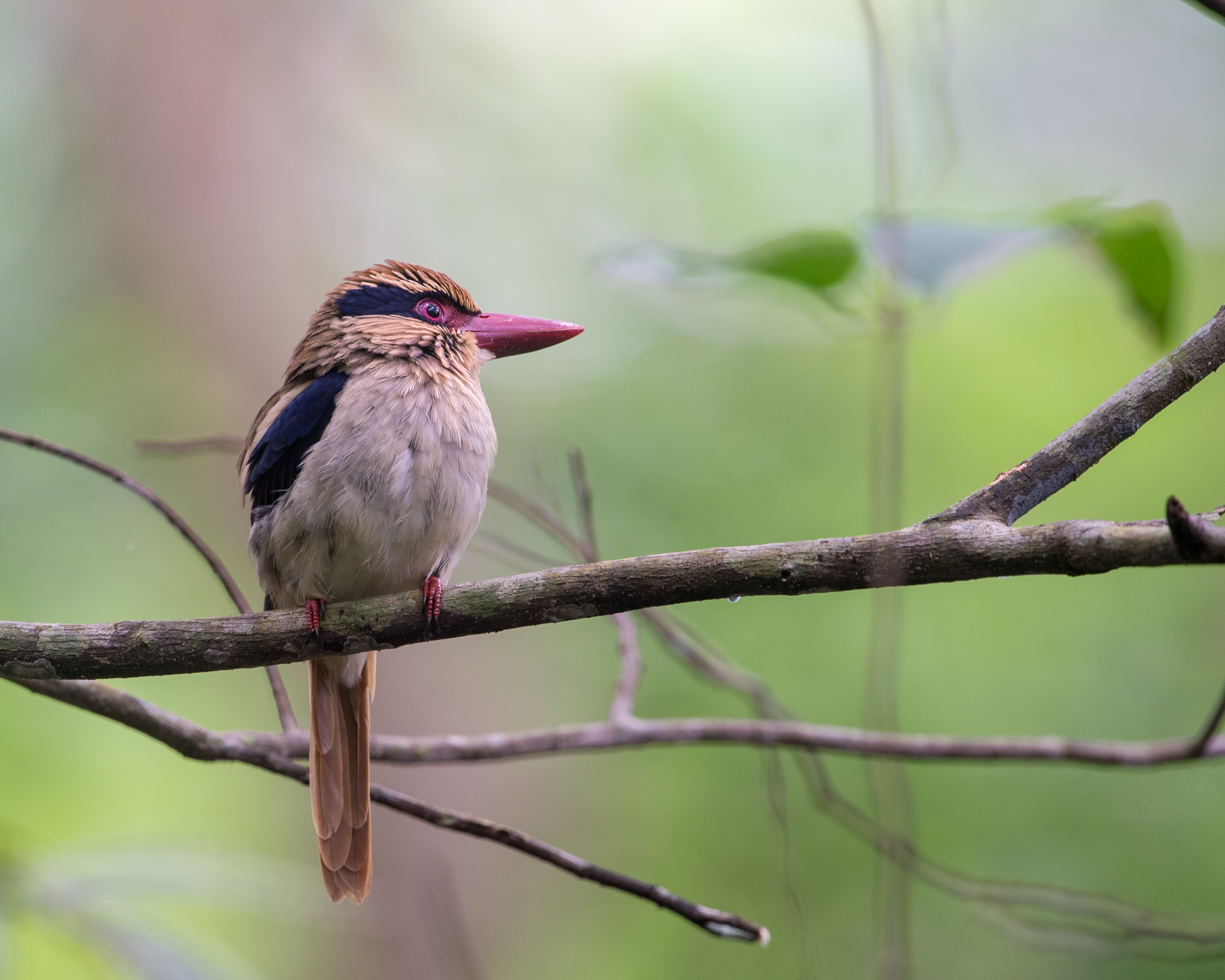 Lilac-cheeked Kingfisher Cittura cyanotis. Tangkoko, North Sulawesi